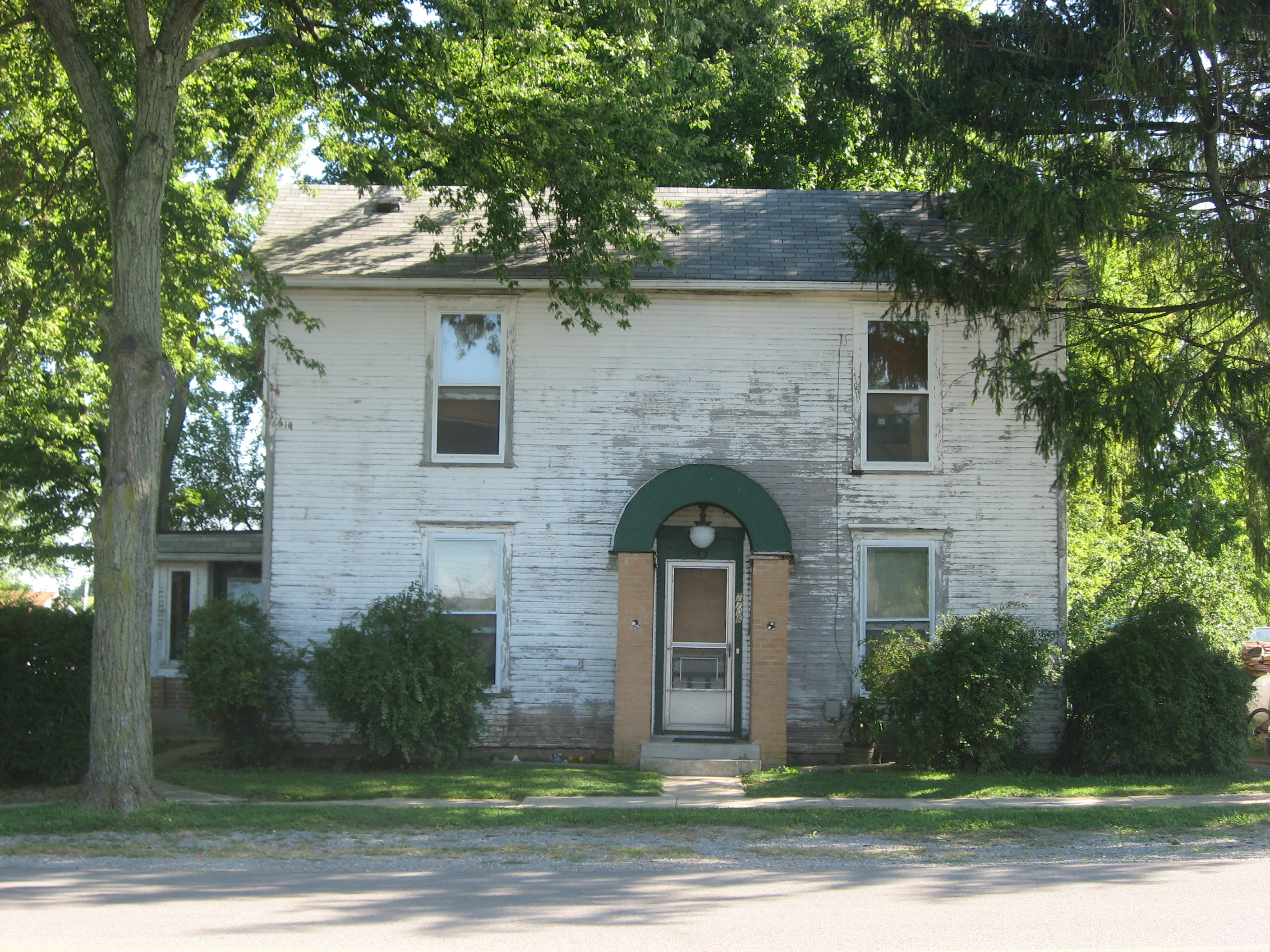 Front of the house on the eastern corner of the intersection of Main (County Road 91) and Hanford Streets in Lewistown, an unincorporated community in Washington Township, Logan County, Ohio, United States.